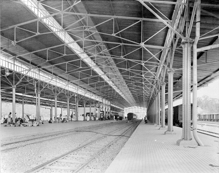 Railwaystation Semarang-West (Pontjol) of the Semarang-Cheribn Steamtram Company in Semarang